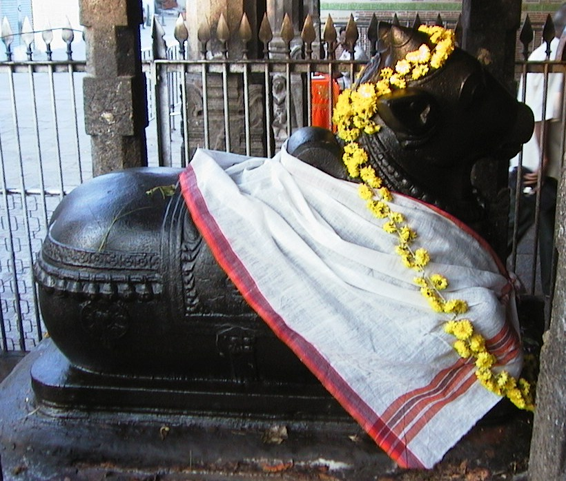 Photograph of an idol of Nandi at the Kapaleeswarar Temple in Chennai